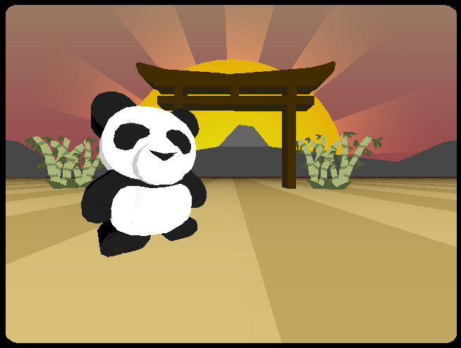 PC 64k Intro: Pocket Safari by Black Maiden. This is a screenshot of a demo by the group Black Maiden, which I'm a member of.